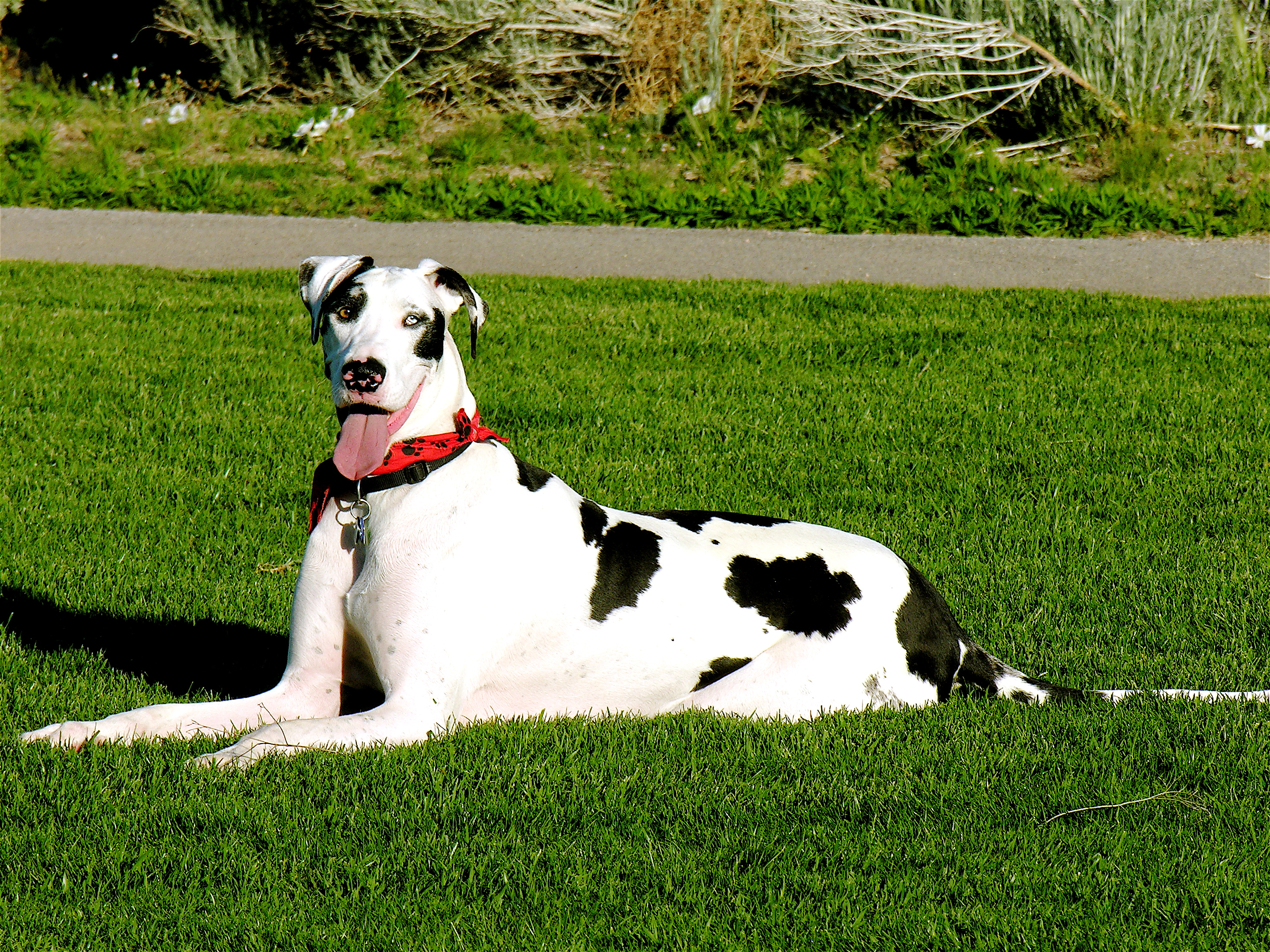 A female harlequin Great Dane.